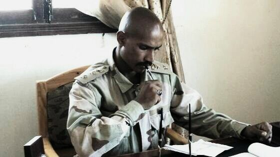 Colonel Ali Ibrahim Al-Raimi (1973-2015) 3rd Armed Brigade Republican Guard